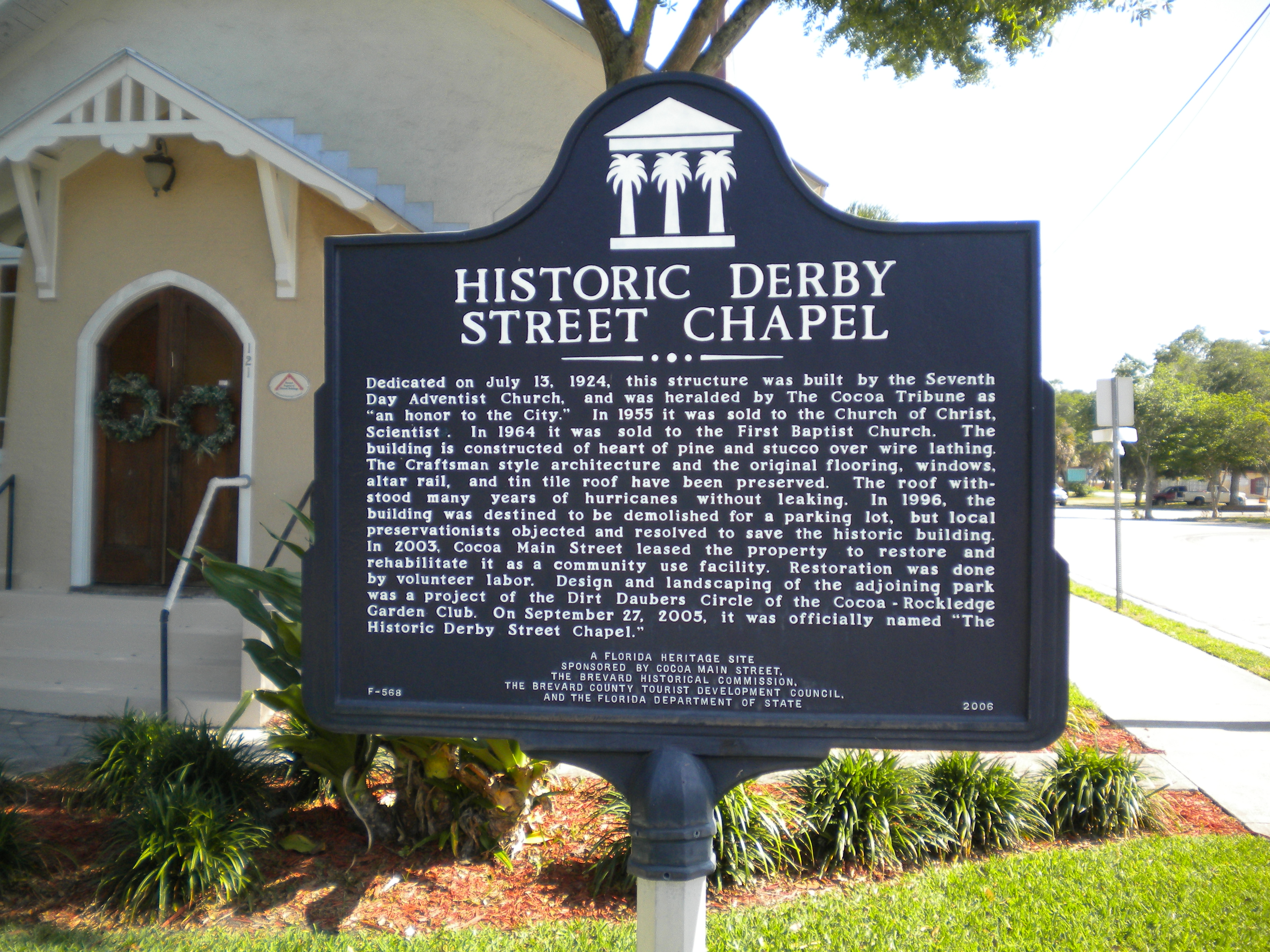 Historic Derby Street Chapel historical marker in front of the Historic Derby Street Chapel, 121 Derby Street, Cocoa, Florida.